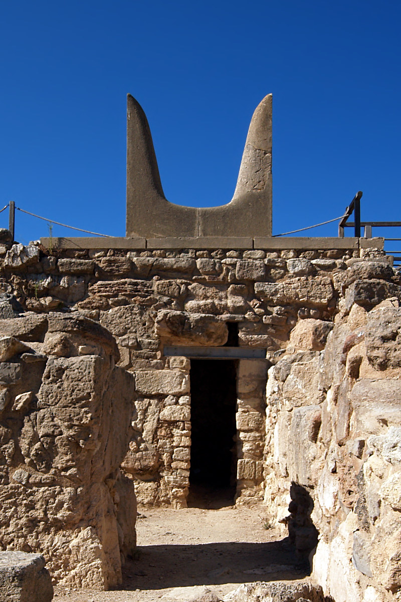 Minoan Palace at Knossos. Horns of Consecration (in the South Propylaeum)